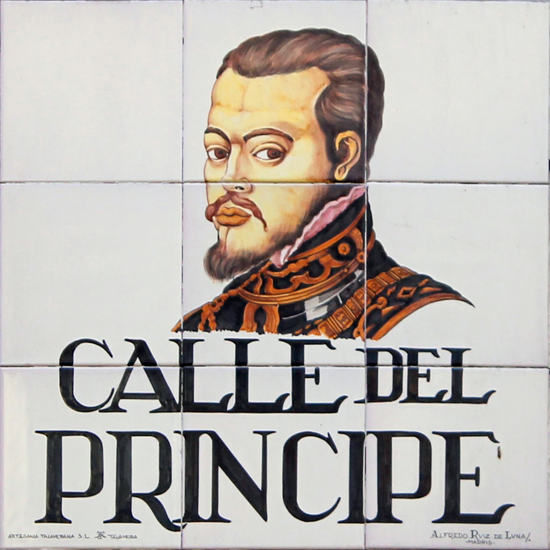 Sign of Calle del Príncipe (street) in Madrid (Spain).